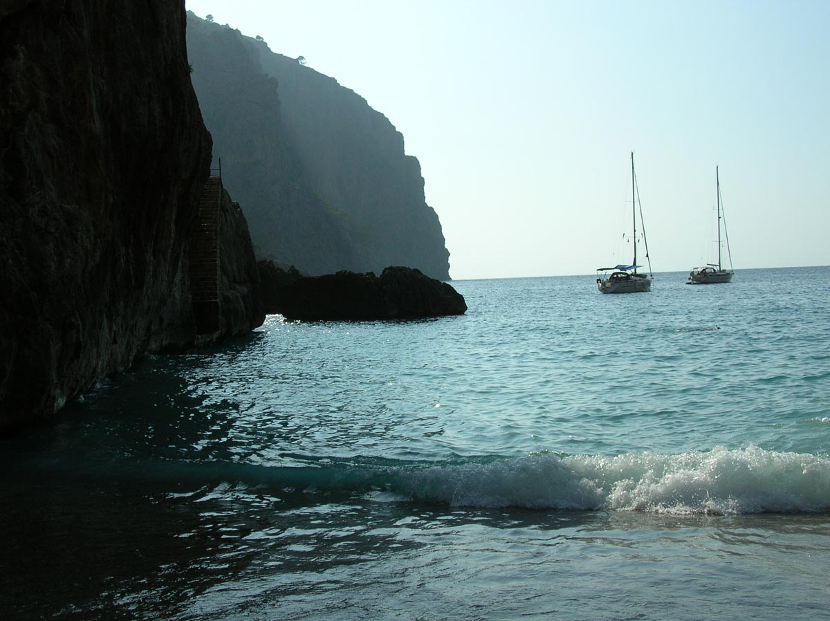 Cala of the Calobra in Mallorca (Spain)